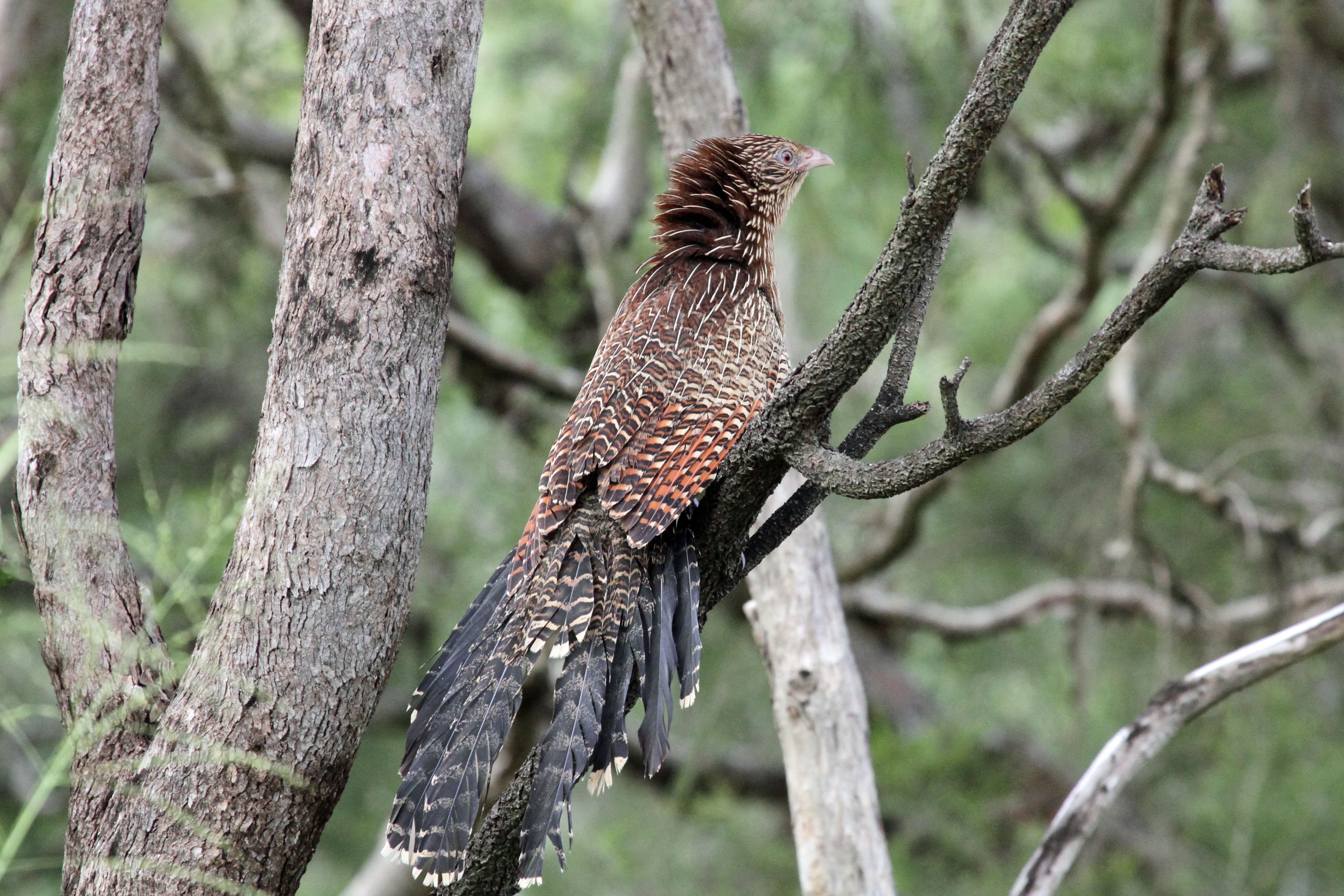 A Pheasant Coucal in Daintree, Queensland, Australia.